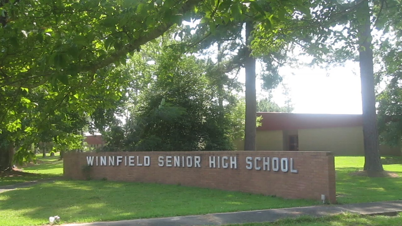 Winnfield Senior High School in Winnfield, LA